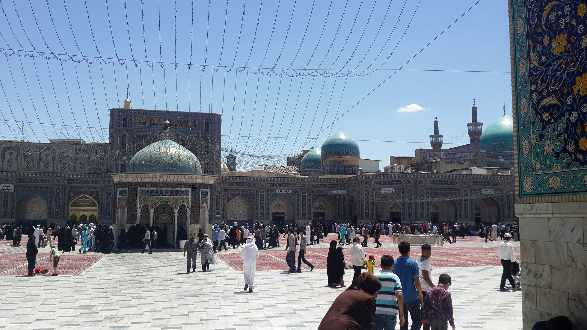 Imam Reza shrine